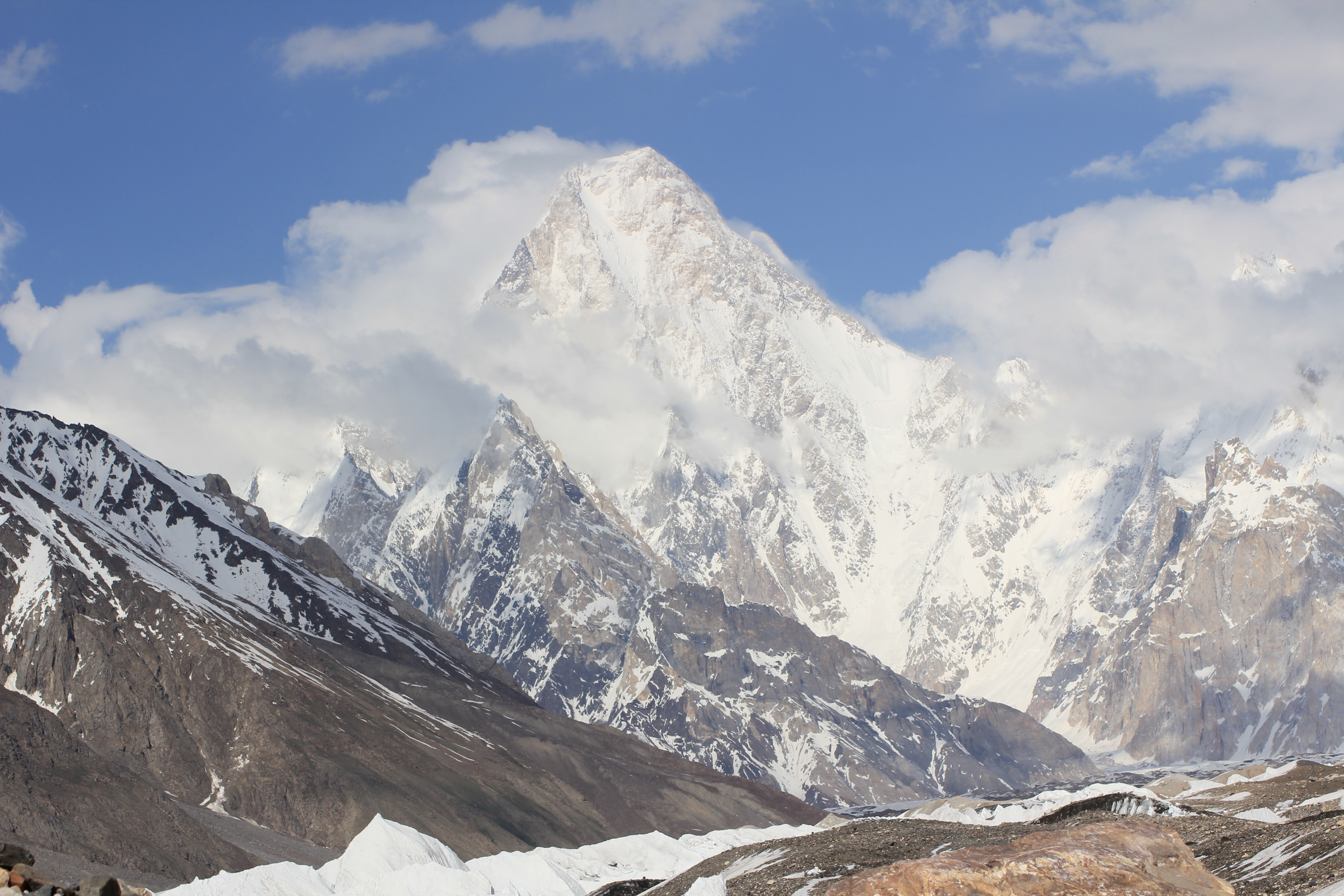 Pictures taken during trekking to Base Camp K2